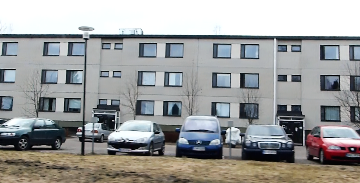 An apartment house built in 1972 in Vihtavuori, Laukaa, Finland.